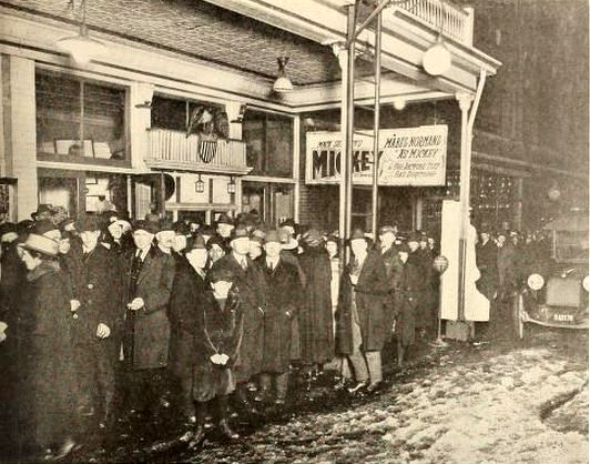 Line to see the film Mickey (1918) at the Garden Theater in Flint, Michigan, on page 1617 of the August 23, 1919 Motion Picture News. The accompanying article states that the theater owner used newspaper ads, billboards, and window displays to promote the film prior to its first showing.